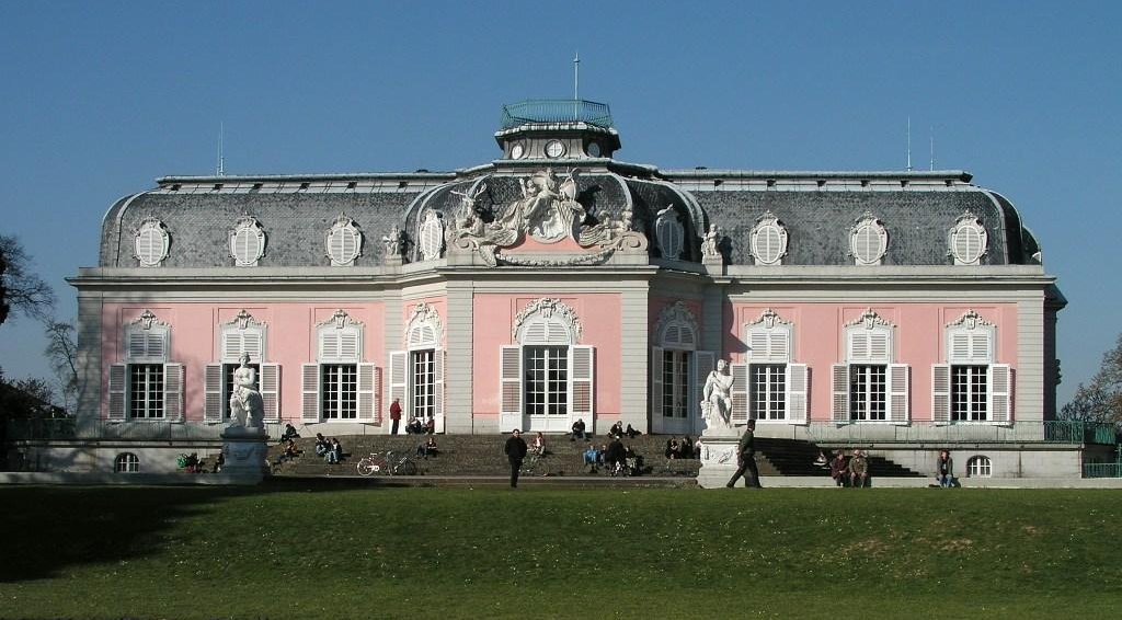 Düsseldorf, Germany: Benrath Castle, photo 2003